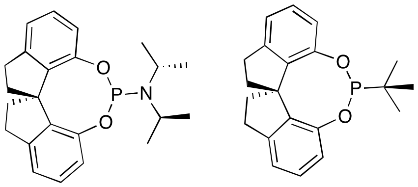 chiral monodentate phosphonite and phosphoramidate ligands